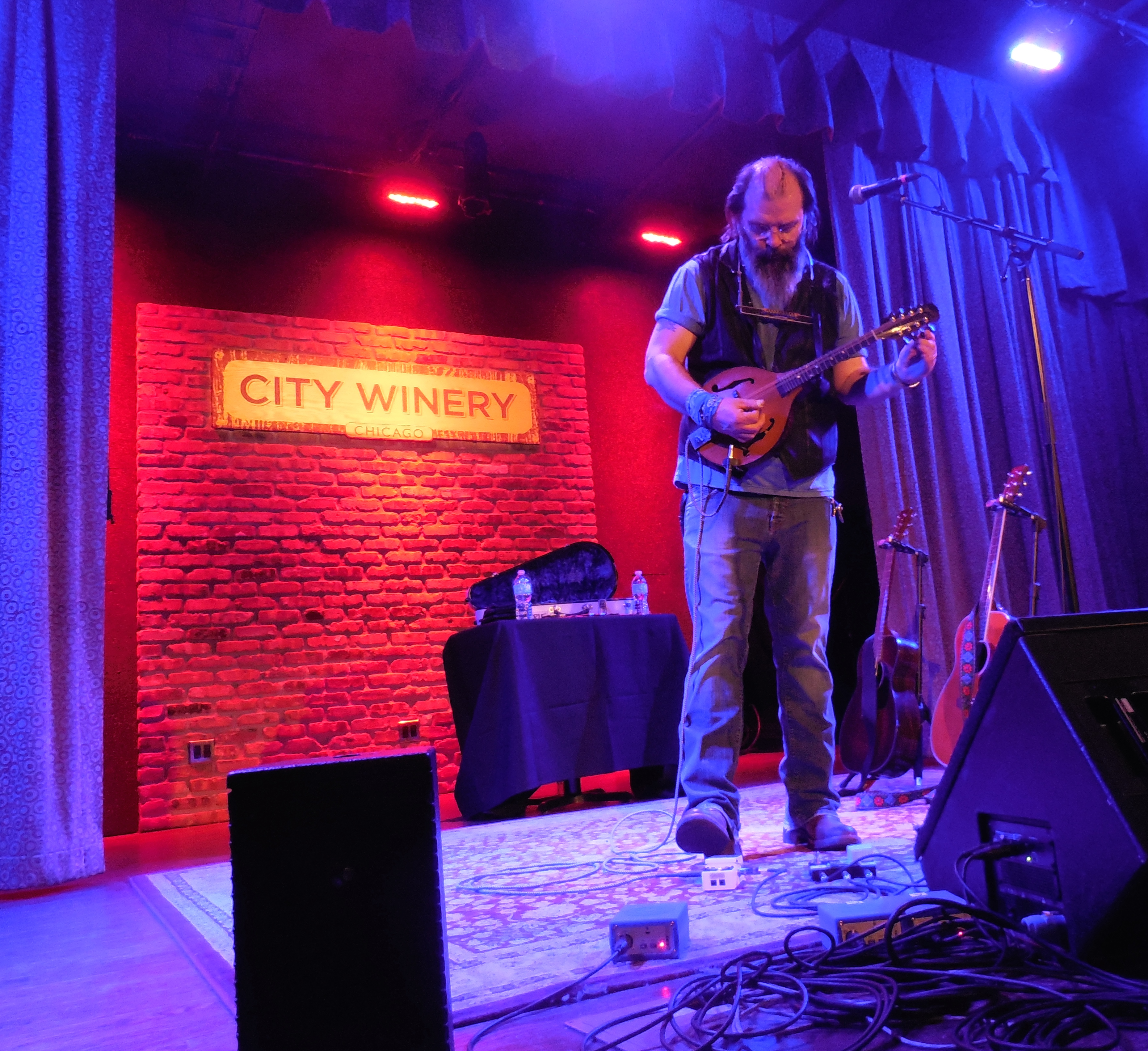 Steve Earle with his favorite instrument, he told us on stage, a mandolin, during night three of his four-evening residence at the City Winery, Chicago franchise. Earle played two-hour sets each night, preceded by dawn Landes each night for a 30-minute set